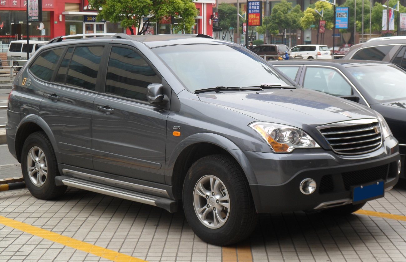 Roewe W5 photographed in Shanghai, China.